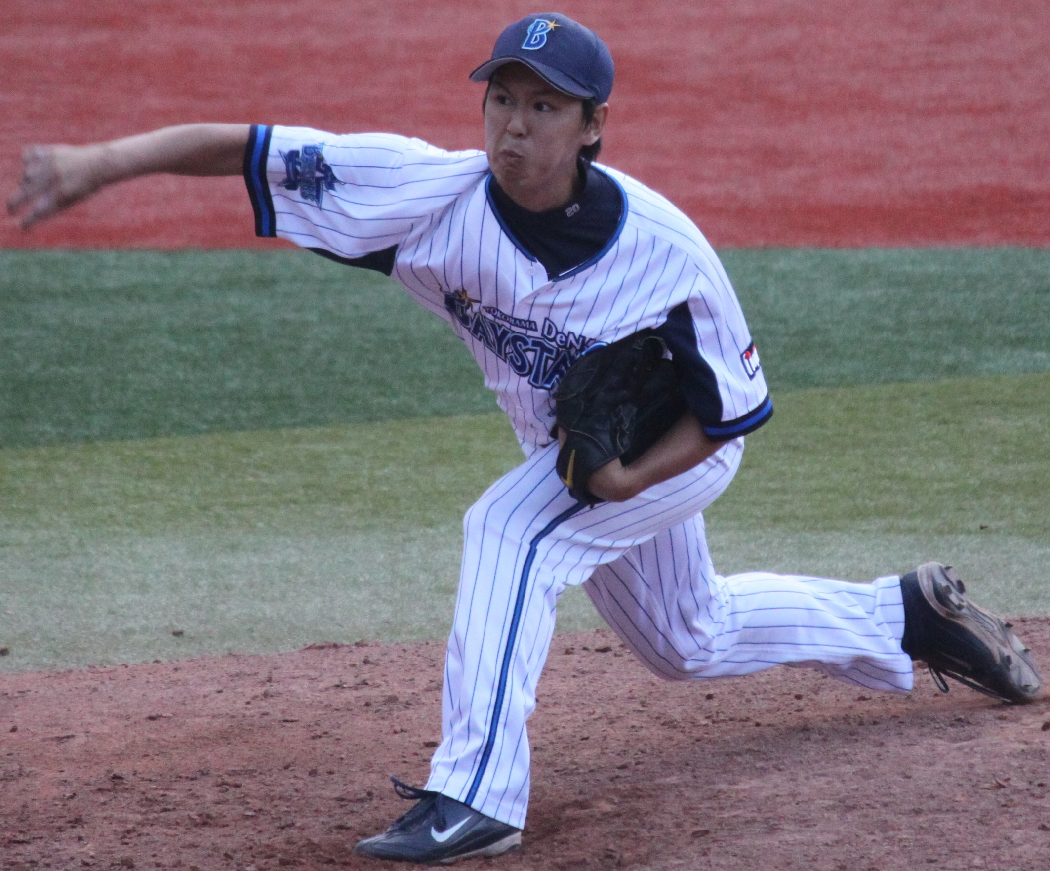 Kota Suda, pitcher of the Yokohama DeNA BayStars, at Yokohama Stadium.